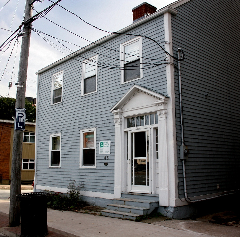 Samuel Greenwood House, 63 King Street, Dartmouth, Nova Scotia. Photographed 26 Sept. 2012 by Stephanie Clay.